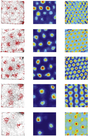 Examples of Grid Cells with Different Grid Spacing and Field Size